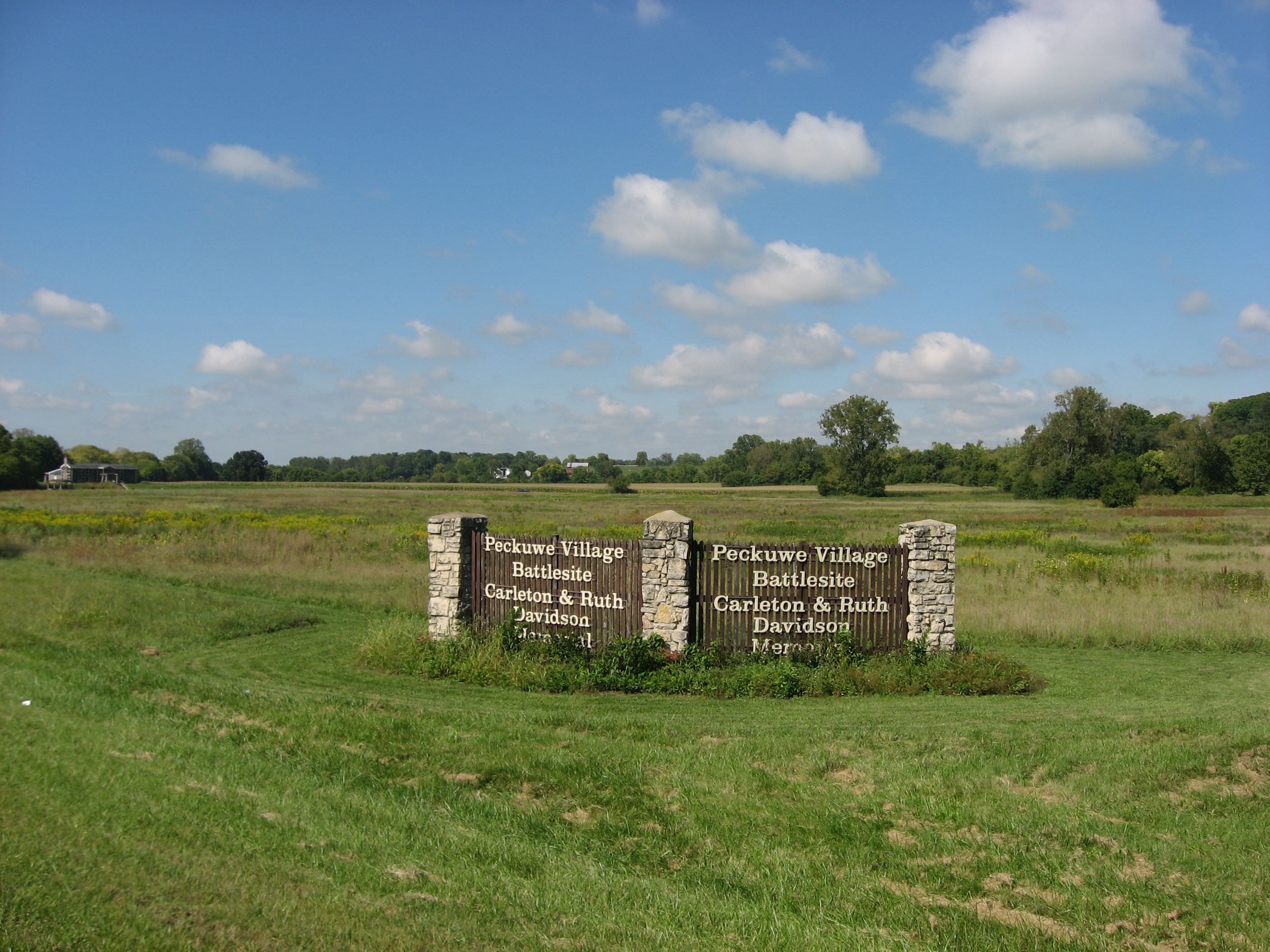 Fields at the Pickaway Settlements Battlesite in Bethel Township, Clark County, Ohio, United States, looking northwest from the southeastern corner of the battlefield. Located along State Route 7, the battlefield lies approximately seven miles west of Springfield. It is the site of the Battle of Peckuwe in 1780 — the largest battle of the American Revolutionary War west of the Appalachians — in which Kentucky militia under George Rogers Clark destroyed the large Shawnee town of Piqua. Today, the site is part of the George Rogers Clark Park, and it is listed on the National Register of Historic Places.